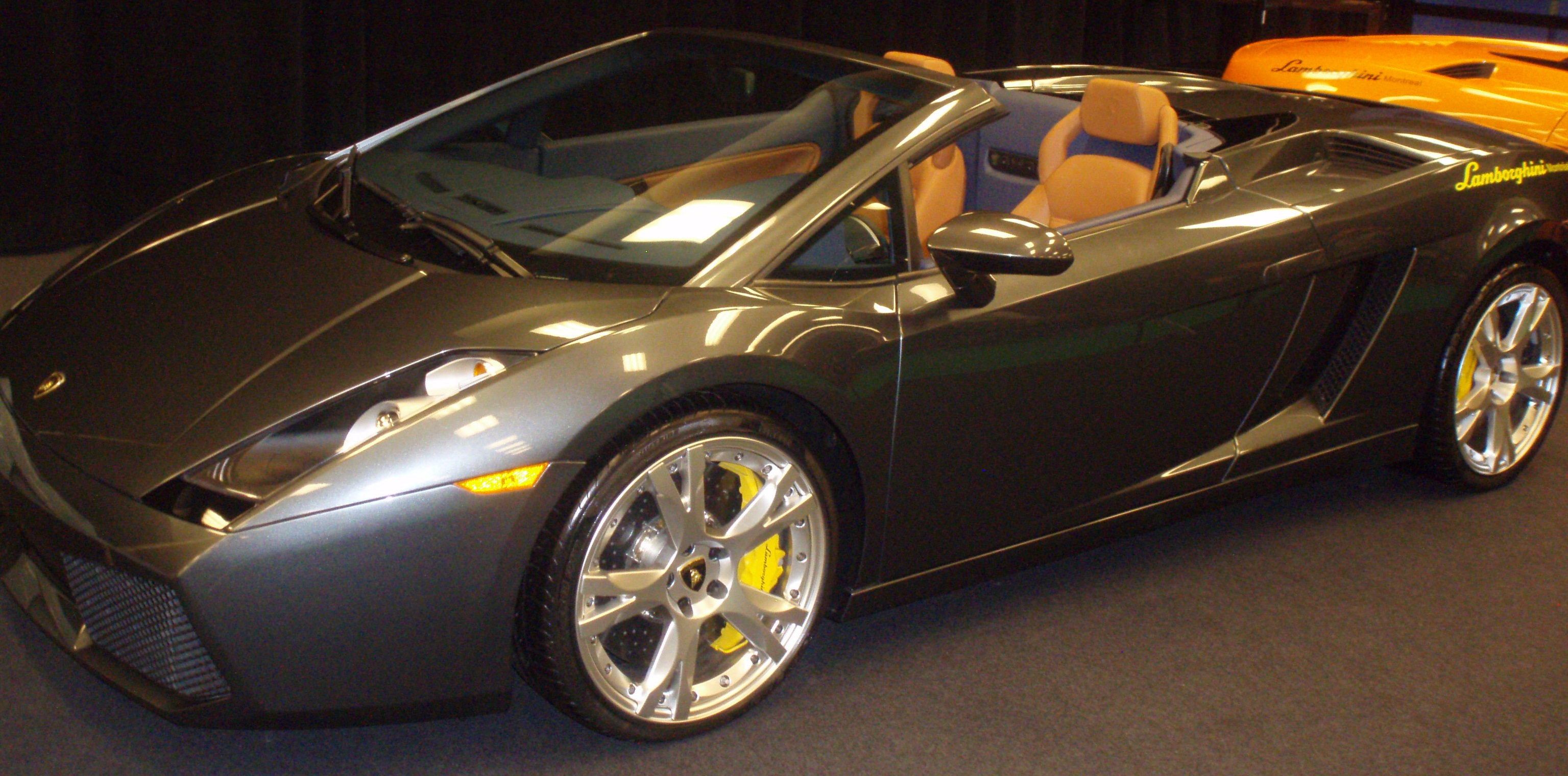 2011 Lamborghini Gallardo Spyder photographed in Montreal, Quebec, Canada at the 2011 Montreal International Auto Show.